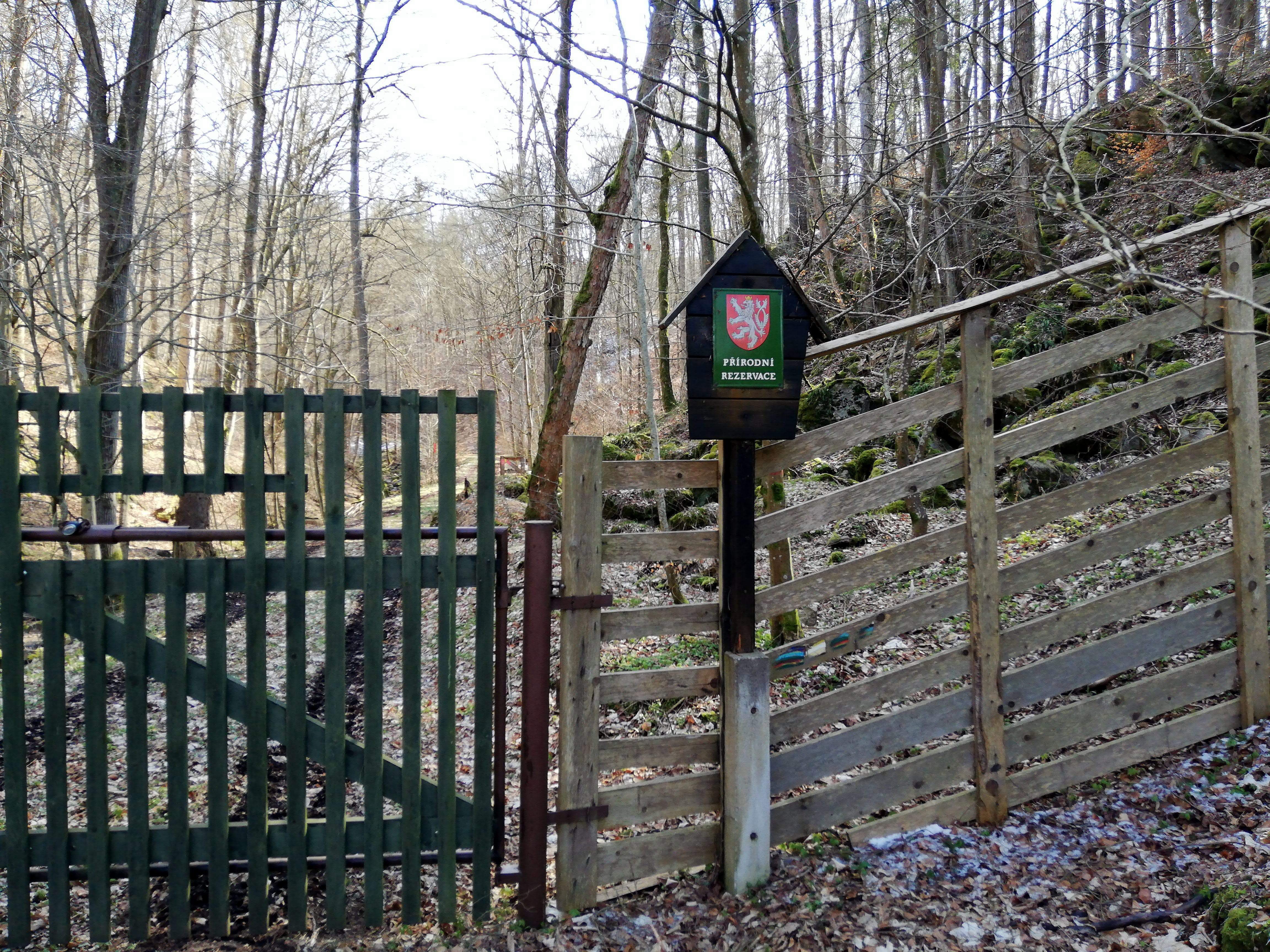 Libochovka Nature Reserve (entrance from road no. III/1472)